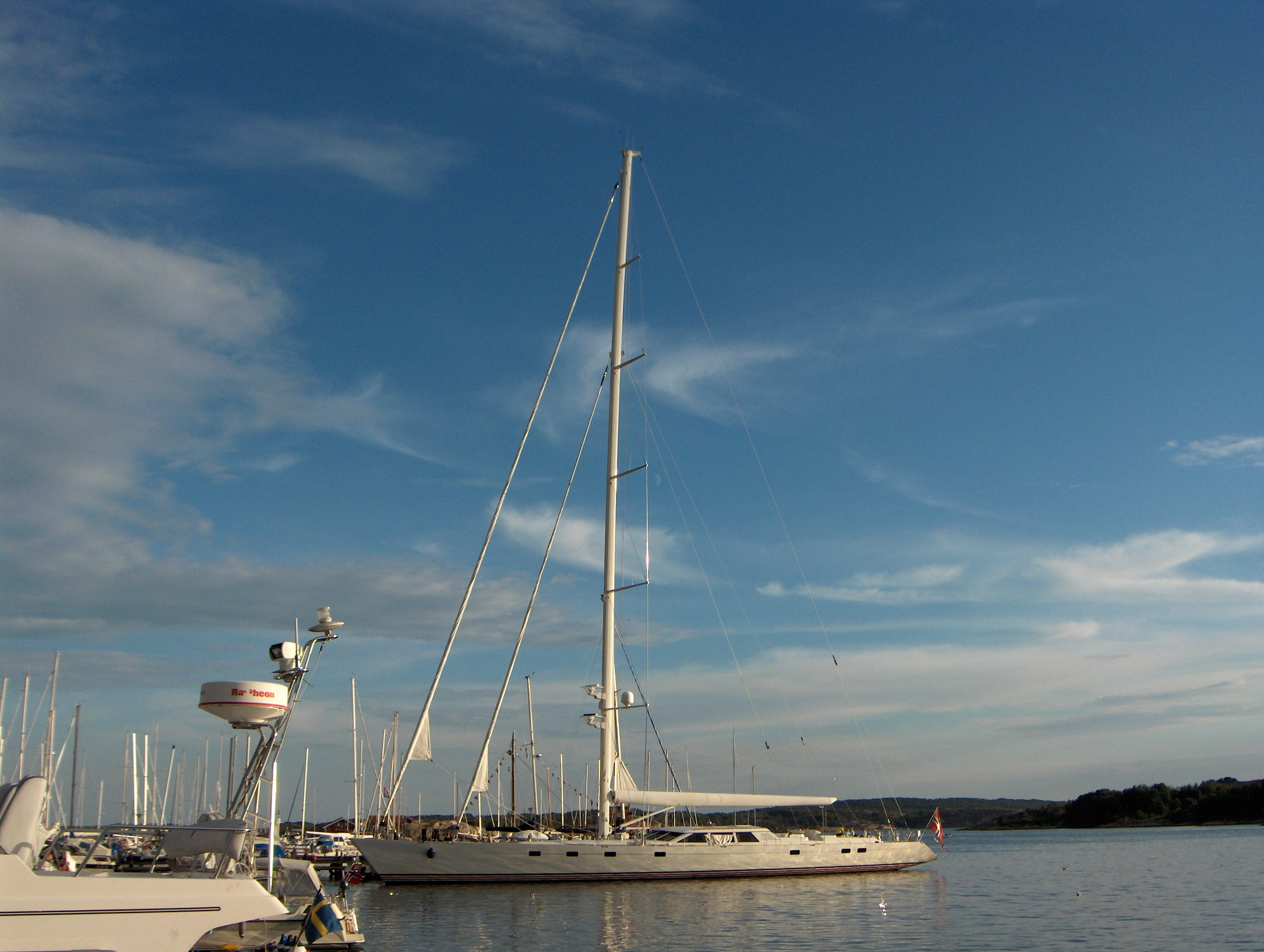 SY Canica moored in Grebbestad, Sweden